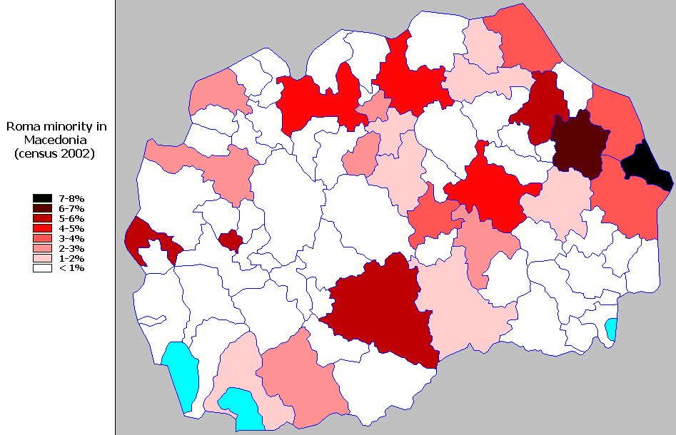 Roma minority in the Republic of Macedonia